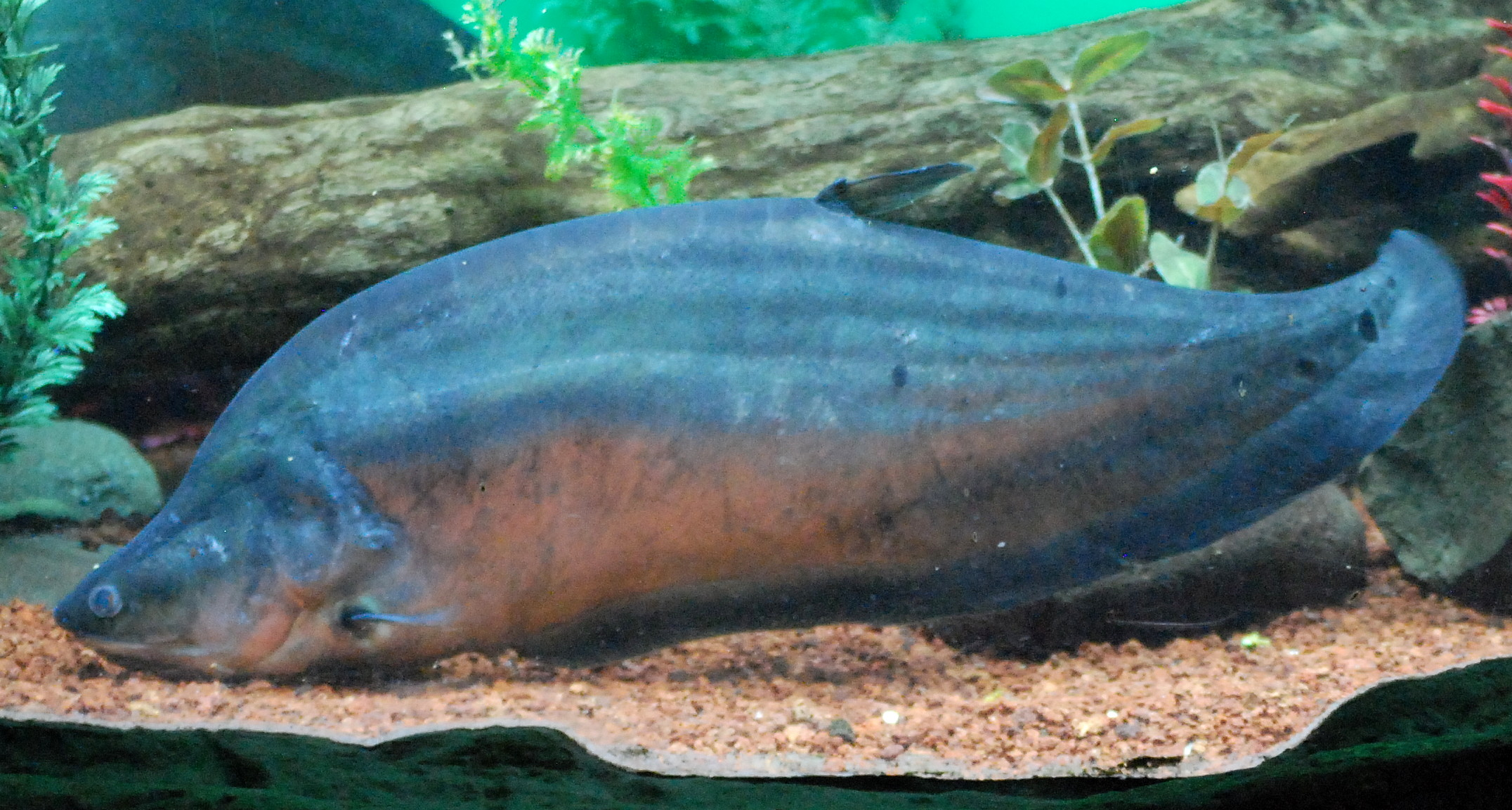 Knifefishes (Chitala sp.) at the Aquarium of Veracruz, Mexico